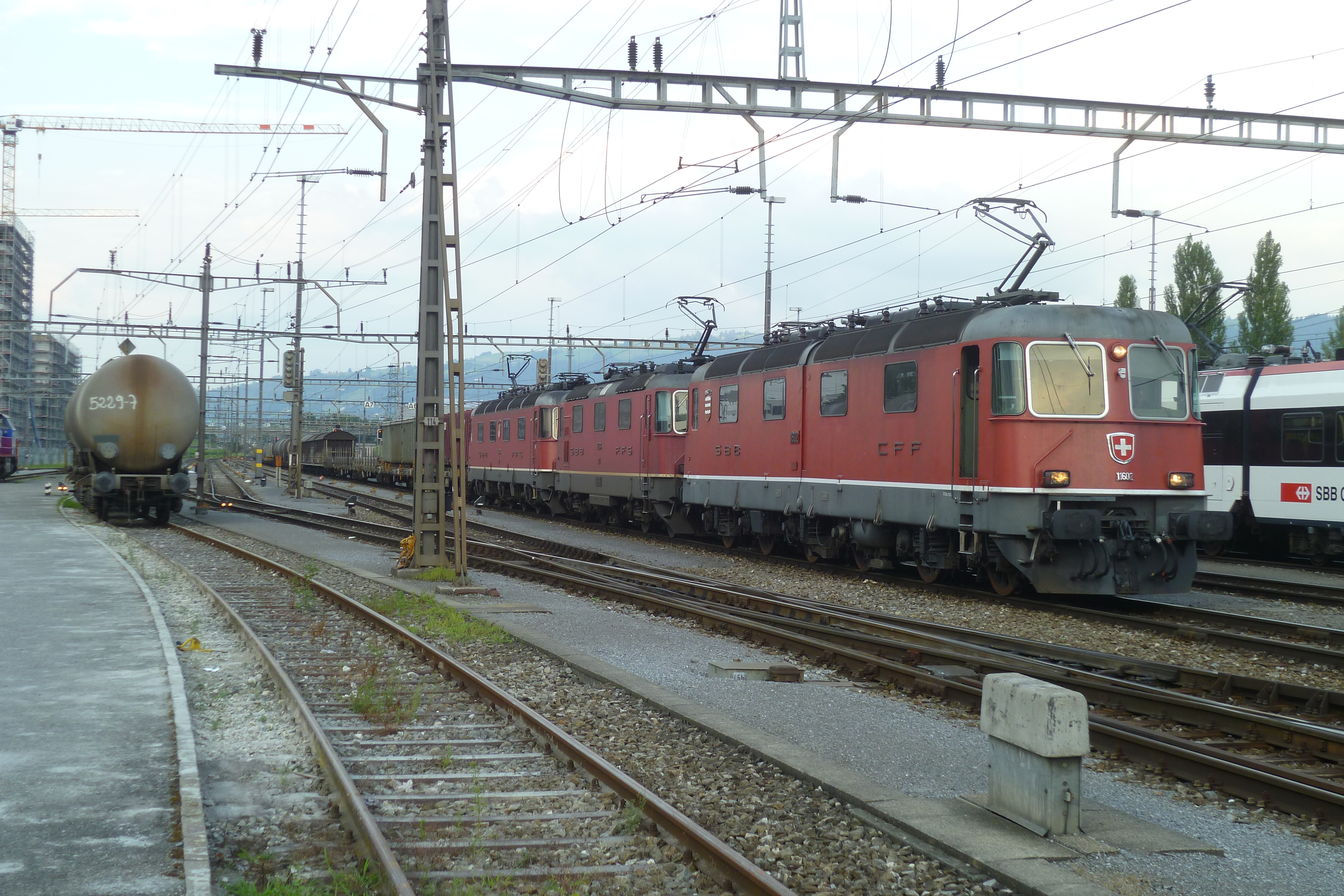 Rotkreuz train stationConsist of SBB Re 6/6 11602 (prototype), SBB Re 4/4 II 11263 out of 2nd series and SBB Re 6/6 11618 (series) heading a freight train